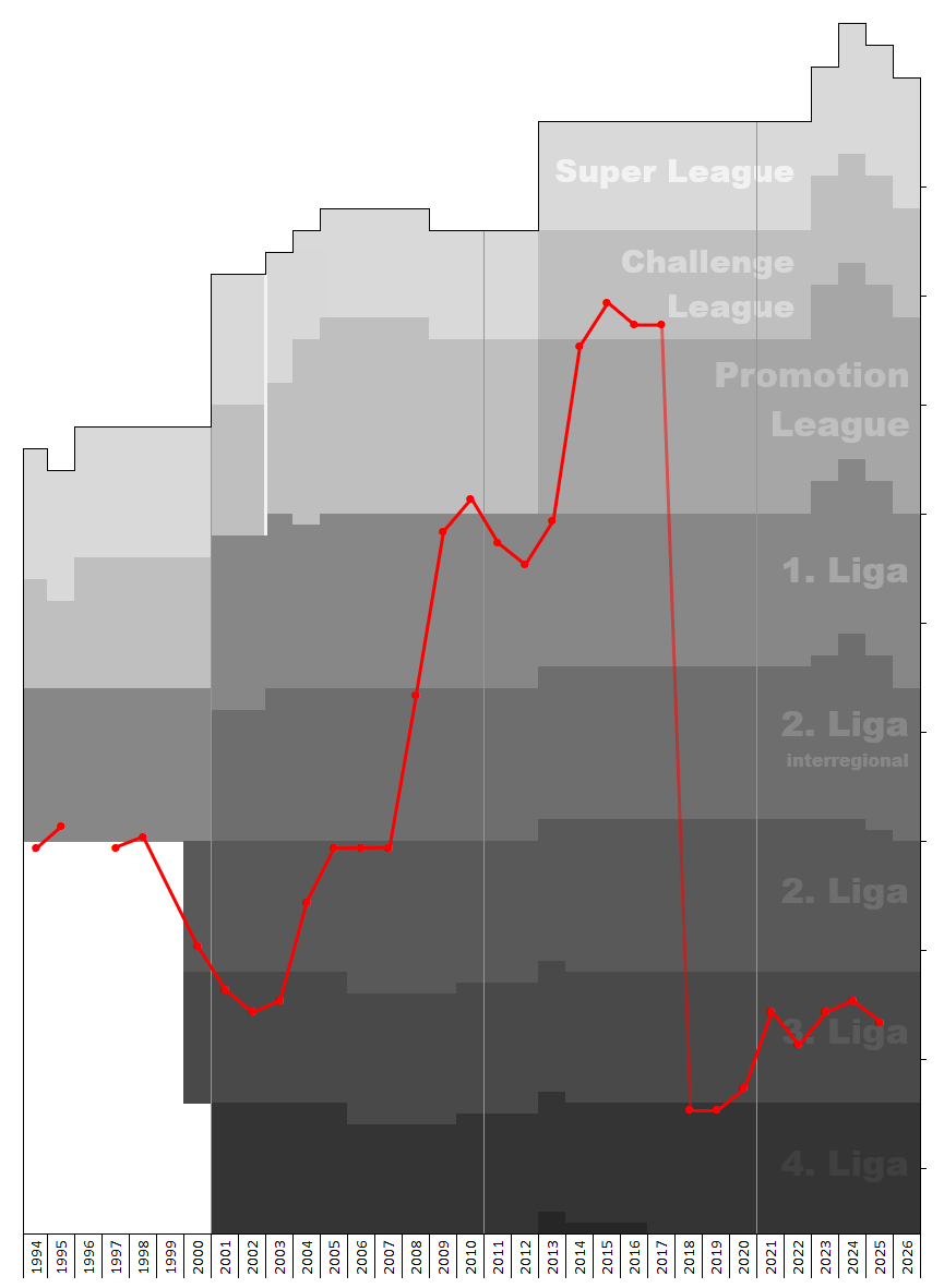 Chart of end-season table positions of FC Le Mont in the Swiss football league system. Data source: RSSSF, , football.ch